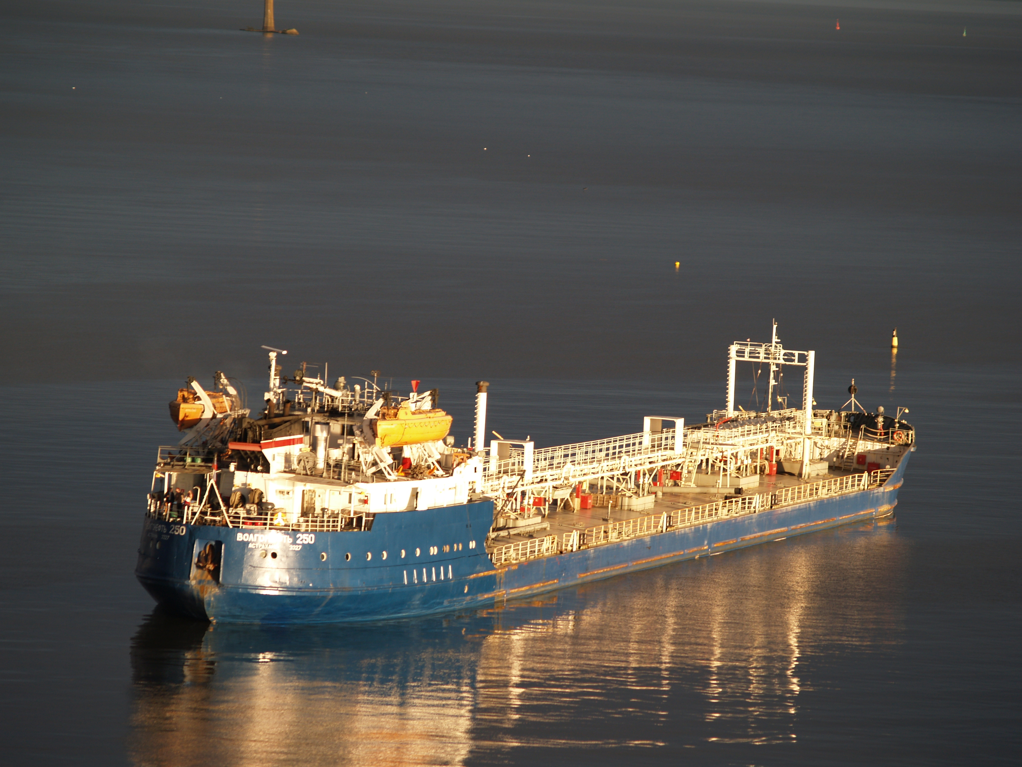 IMO number : 8231045 Name of ship : VOLGONEFT-250 Call Sign : UFQT Gross tonnage : 3463 Type of ship : Oil Products Tanker Year of build : 1975 Flag : Russia Status of ship : In Service